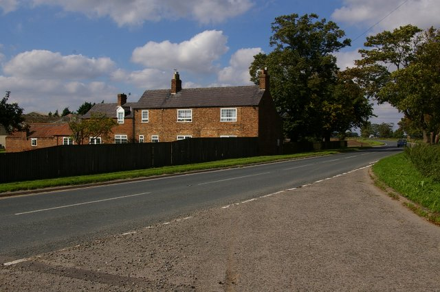 Newsholme, East Riding of YorkshireA63 Newsholme Looking North West.